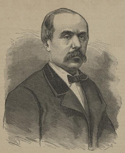 Augusto Carlos Cardoso Bacelar de Sousa Azevedo, 2nd Viscount of Algés